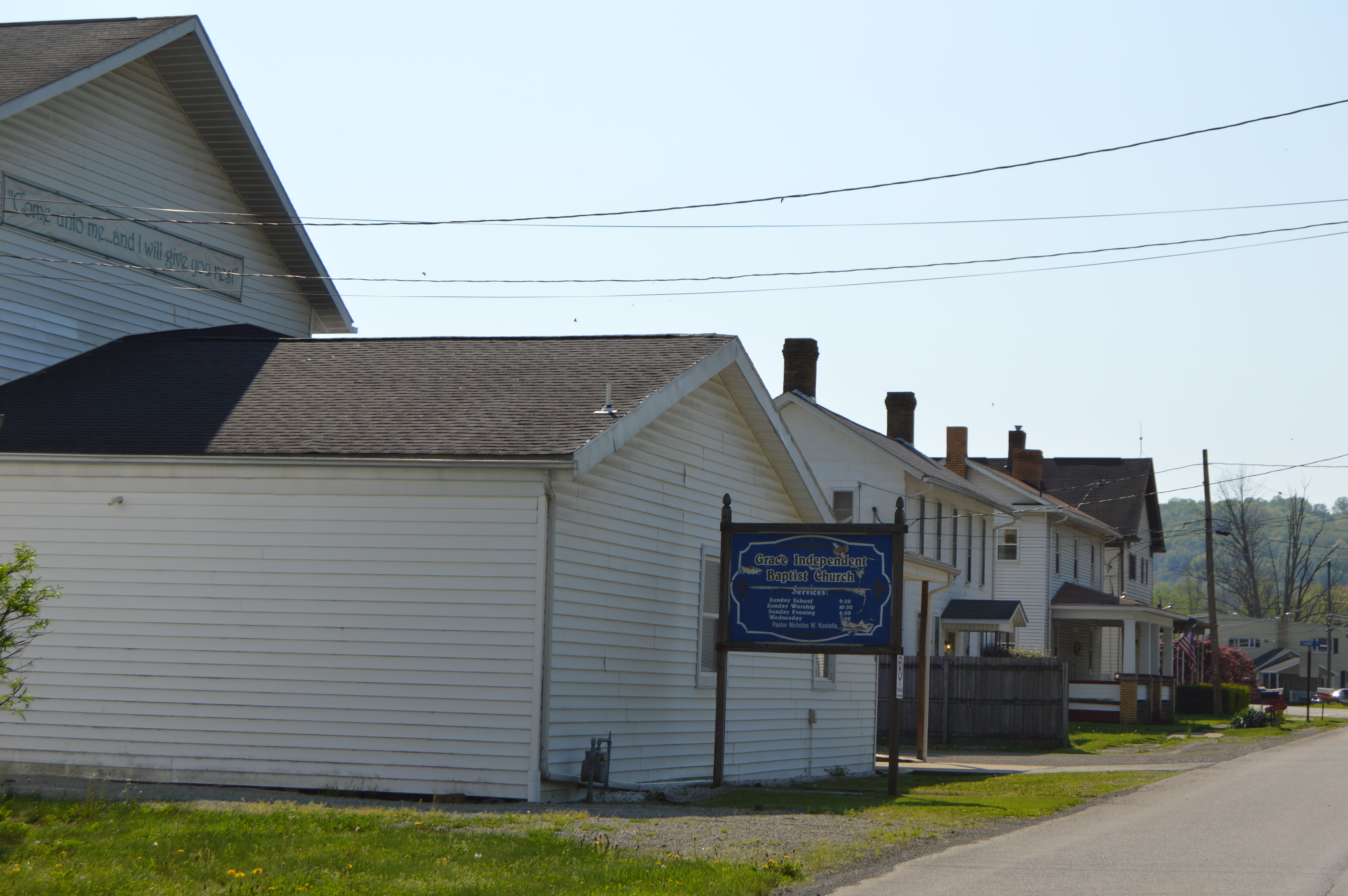 Houses and a Baptist church on the northeastern side of Main Street between Fourth and Third Streets in Shelocta, Pennsylvania, United States.